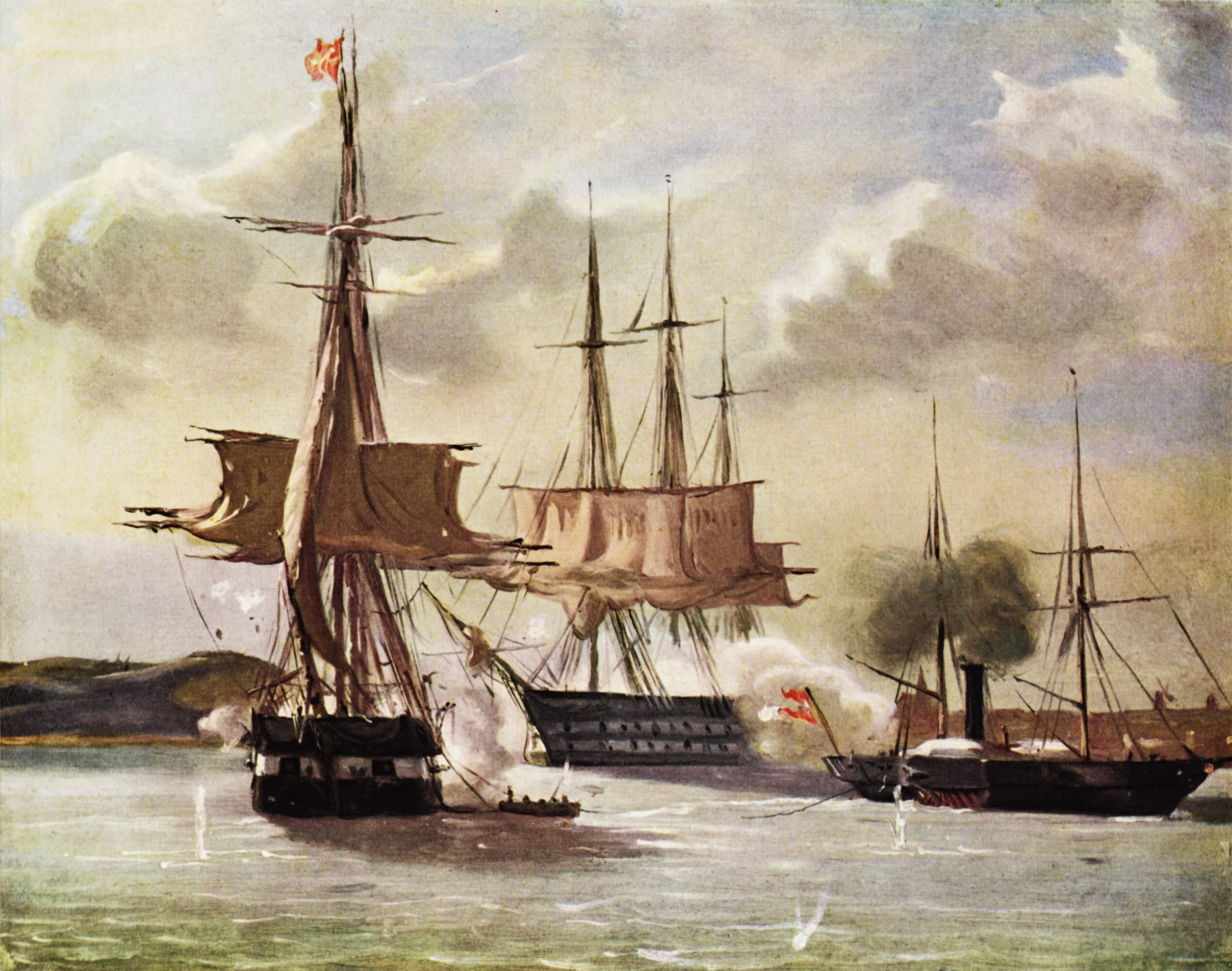 Left to right:The sail frigate Gefion, the sail ship of the line Christian den Ottende and the paddle steamer Geiser, trying to tow the Gefion to a better postition. From there, everything went wrong for the Danes.